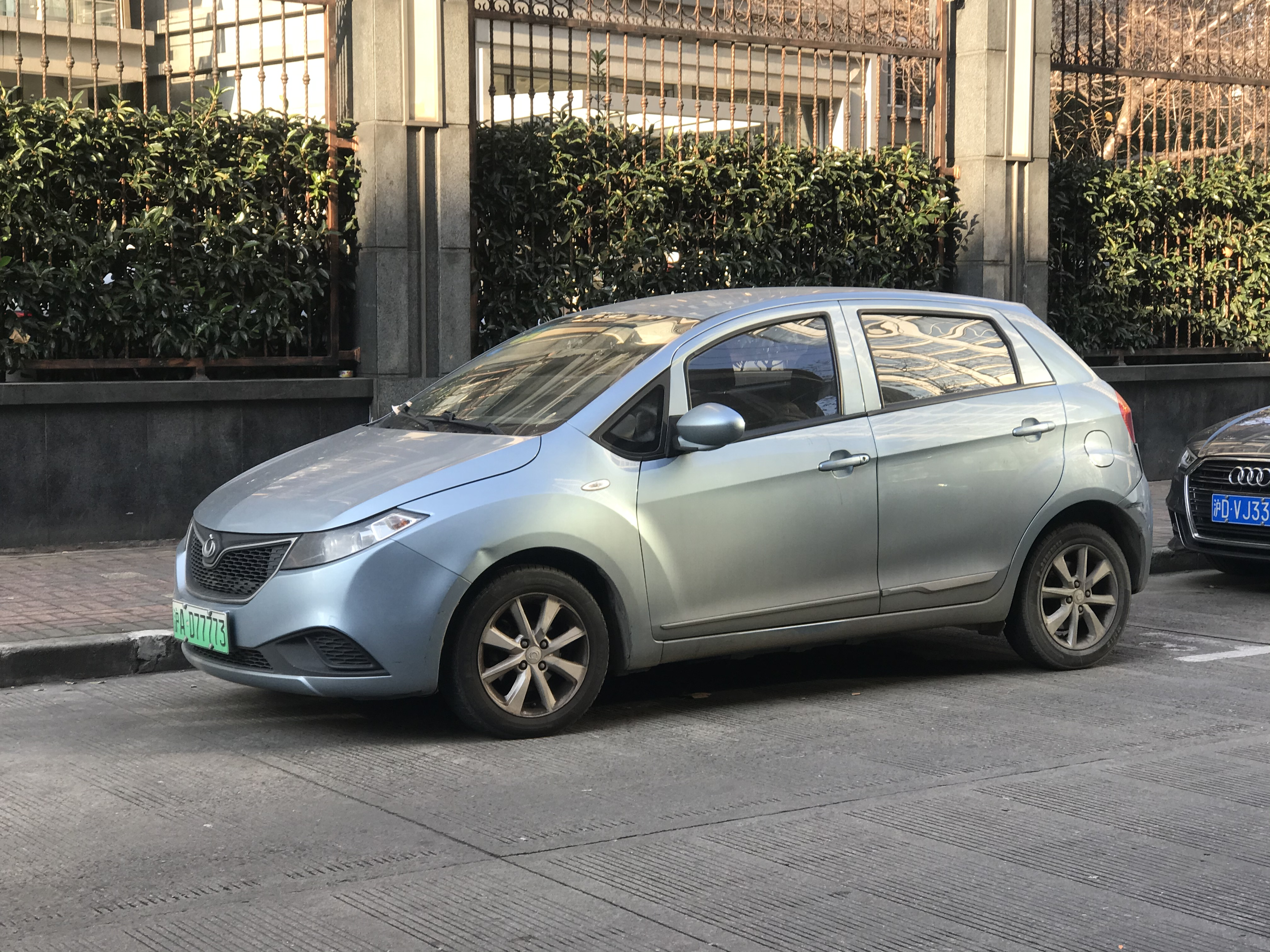 Front quarter view of a Kandi K17A EV by Geely in Shanghai. (Vehicle body is a rebadged Geely Englon SC5-RV)